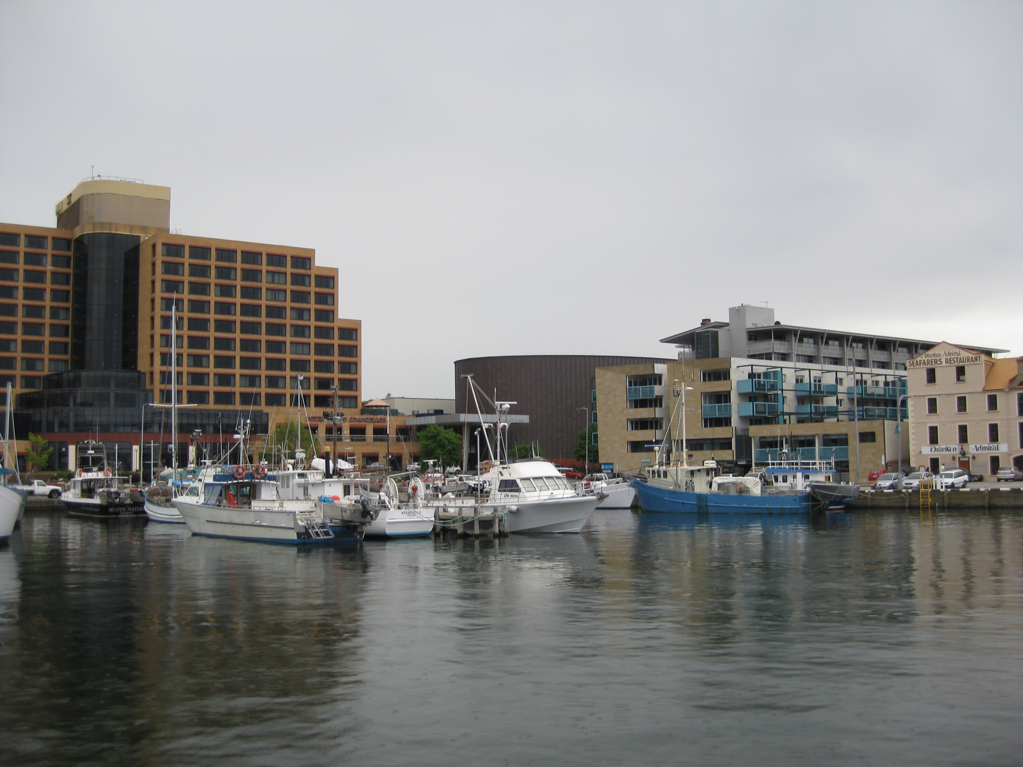 Fishing boats alongside at Victoria Dock, Hobart in November 2010